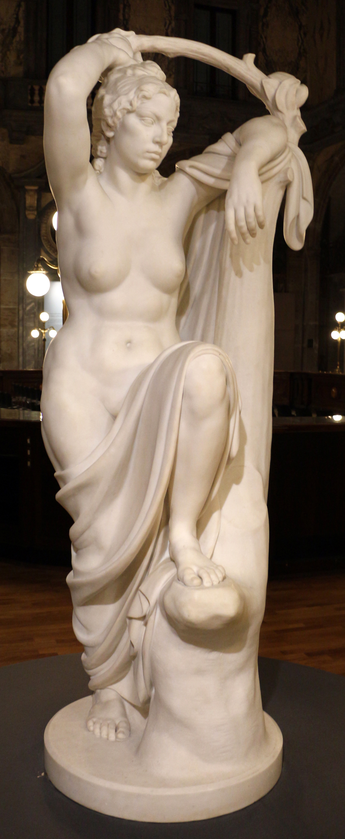 Sculptures in Palazzo Zevallos